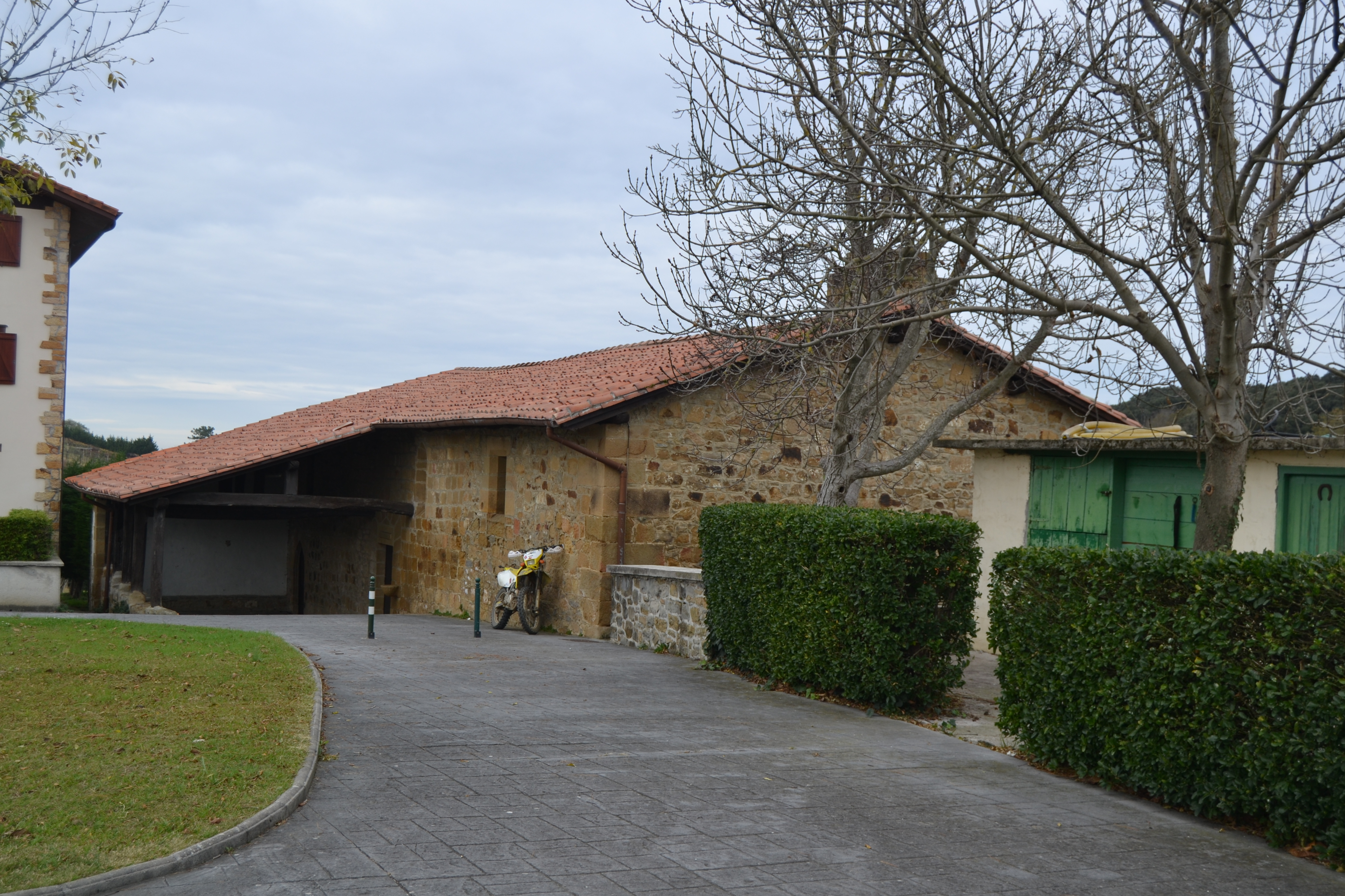 San Prudentzio hermitage, Getaria. Gipuzkoa, Basque Country.